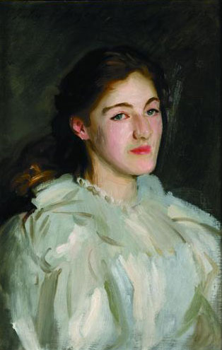 Cicely Horner (later Mrs. George Lambton ) John Singer Sargent -- American painter c. 1889 Private collection Oil on canvas laid down 61.0 x 40.6 cm (24 x 16 in) Signed u/l: John S. Sargent and dated u/r: 1910 Jpg: Bonhams & Butterfield